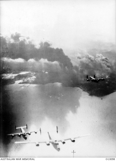 Three RAAF Liberator bombers flying over Balikpapan in June 1945, World War 2, having bombed oil facilities that are now burning behind them